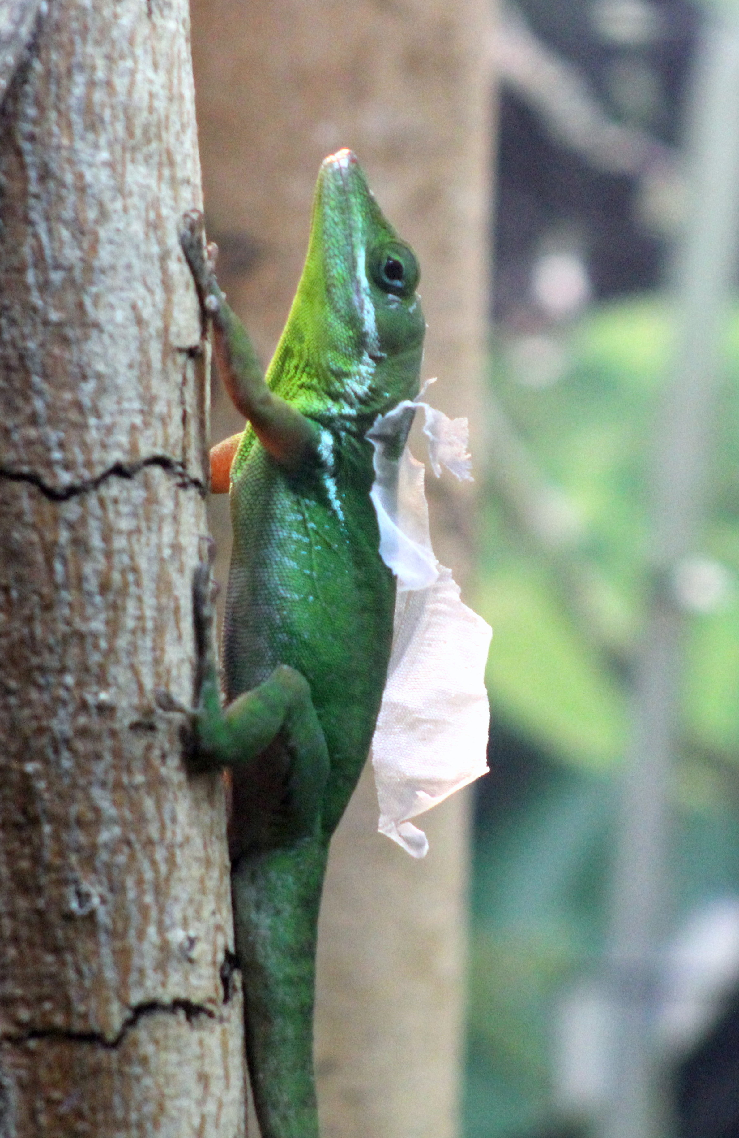 Anolis coelestinus cropped versopn